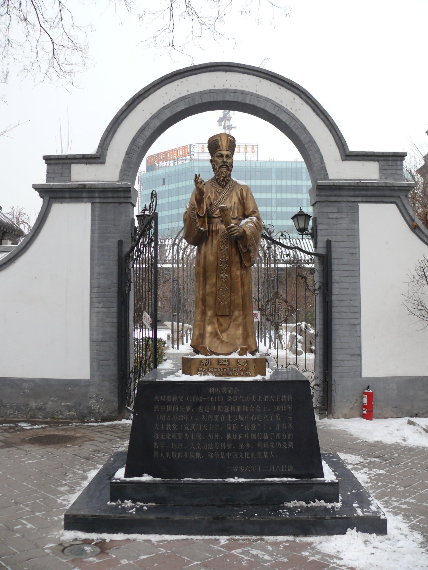 The Cathedral of the Immaculate Conception of Beijing (China).